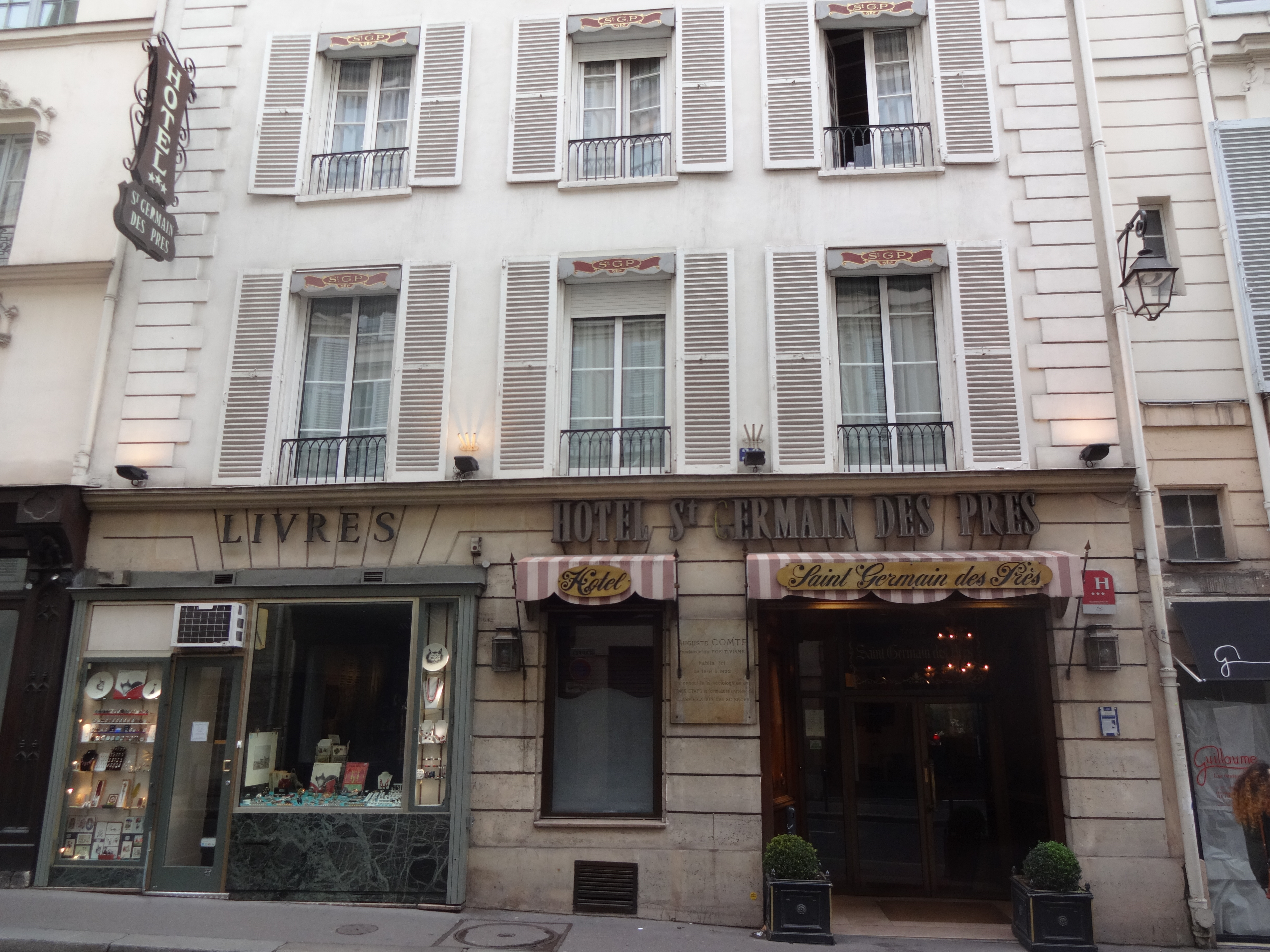 House of Auguste Comte, 1818-22, Quartier Latin, 36 Rue Bonaparte, 75006 Paris, France.